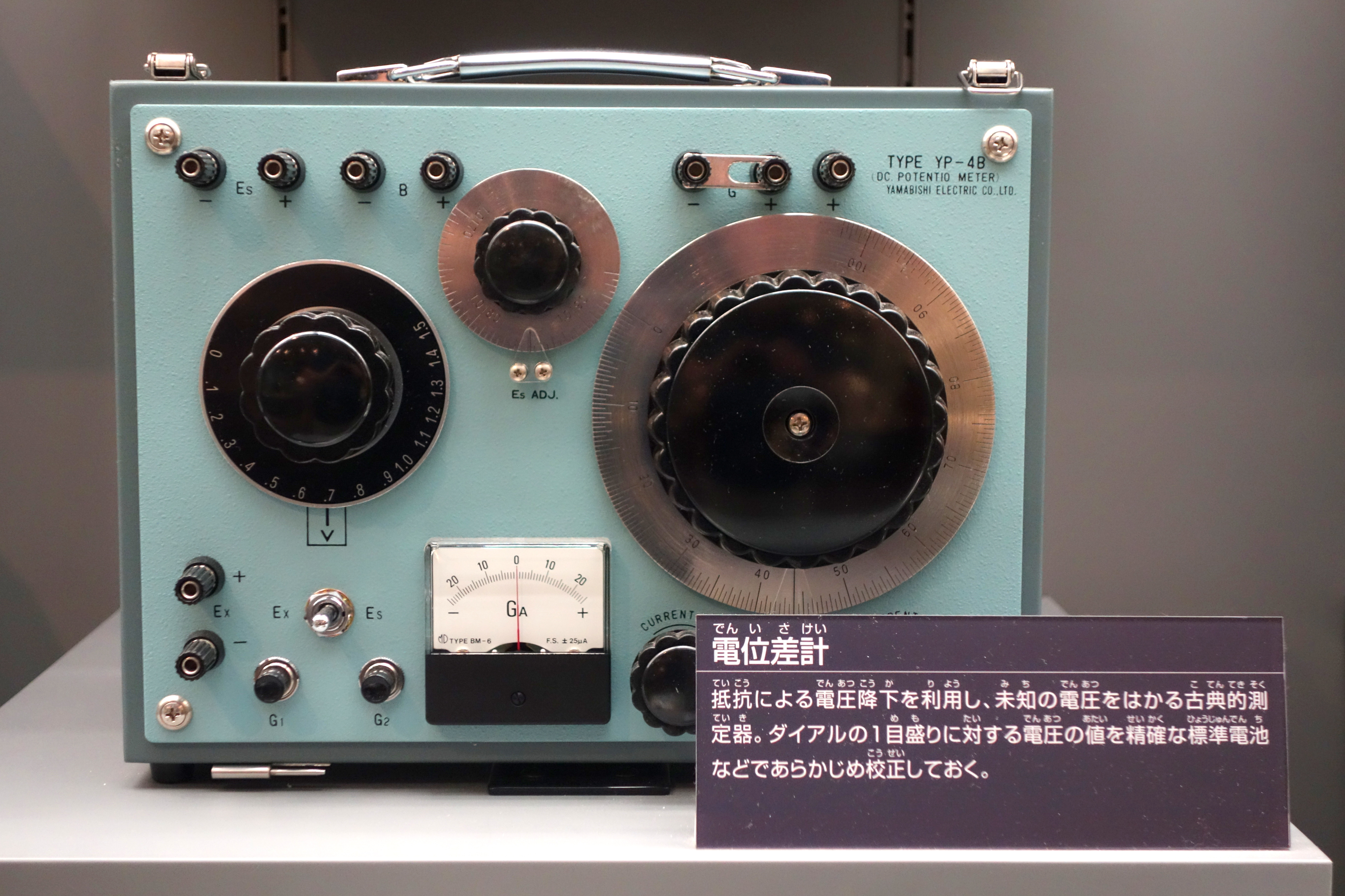 Exhibit in the National Museum of Nature and Science, Tokyo, Japan.